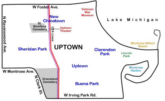 Detailed map of Chicago Community Area 03 - Uptown Created with Macromedia Fireworks 4 PNG-8 Websnap adaptive color palette 256 colors Index transparency